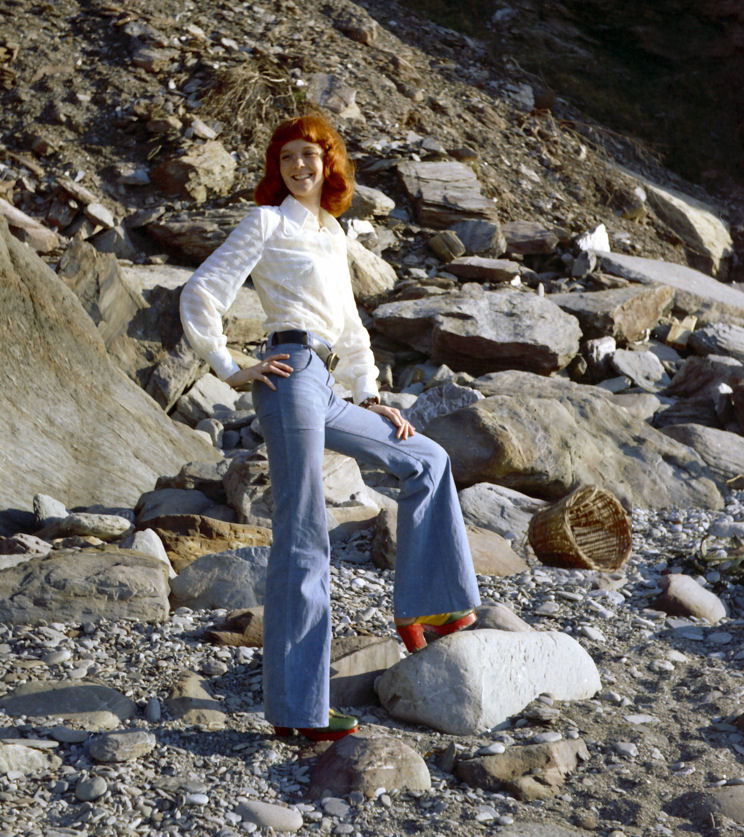 Tall natural redhead Erika on a North Devon beach in the UK, wearing bell bottom jeans. Mid 1970s.